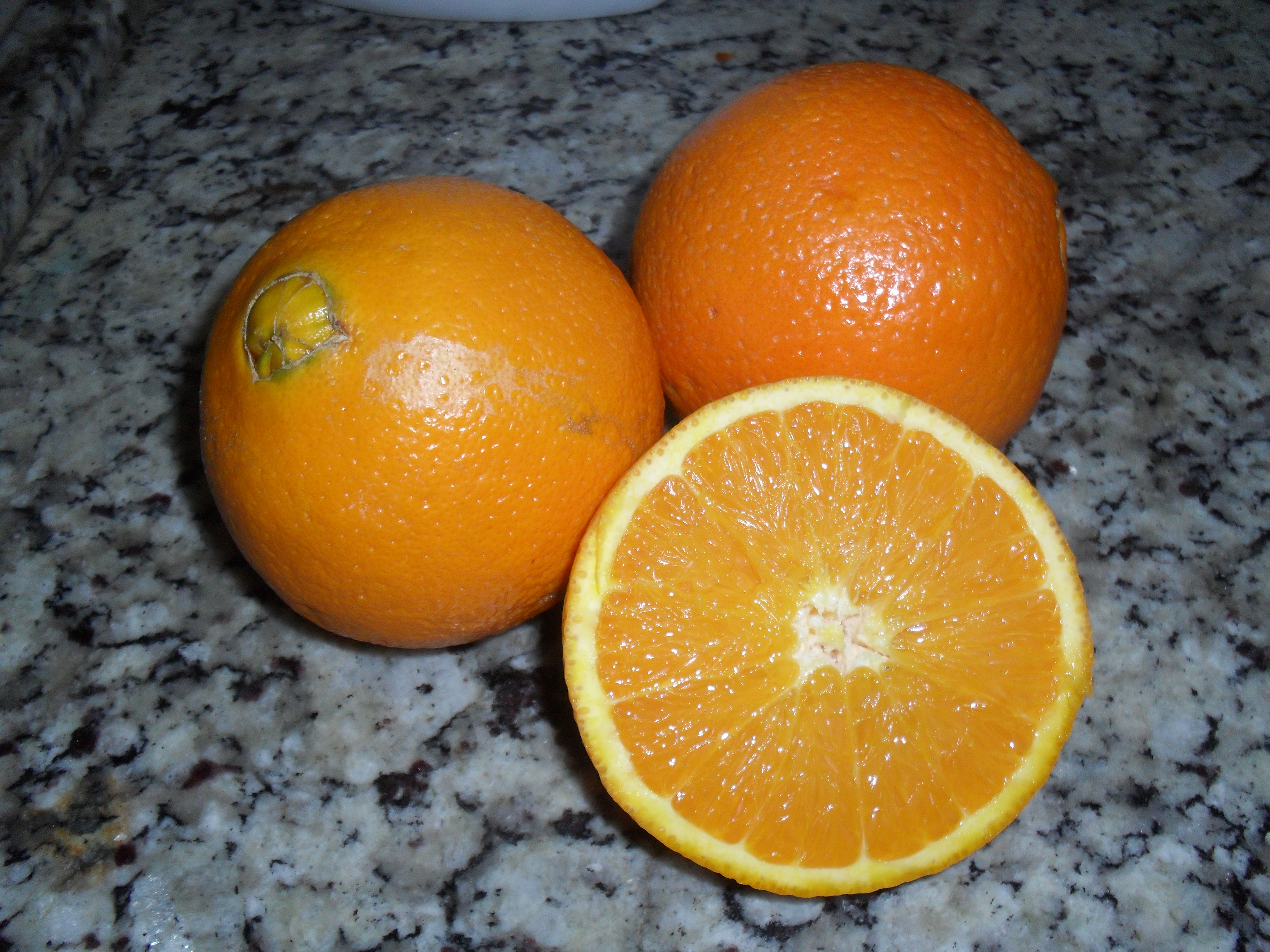 Navel oranges